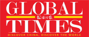 Global Times